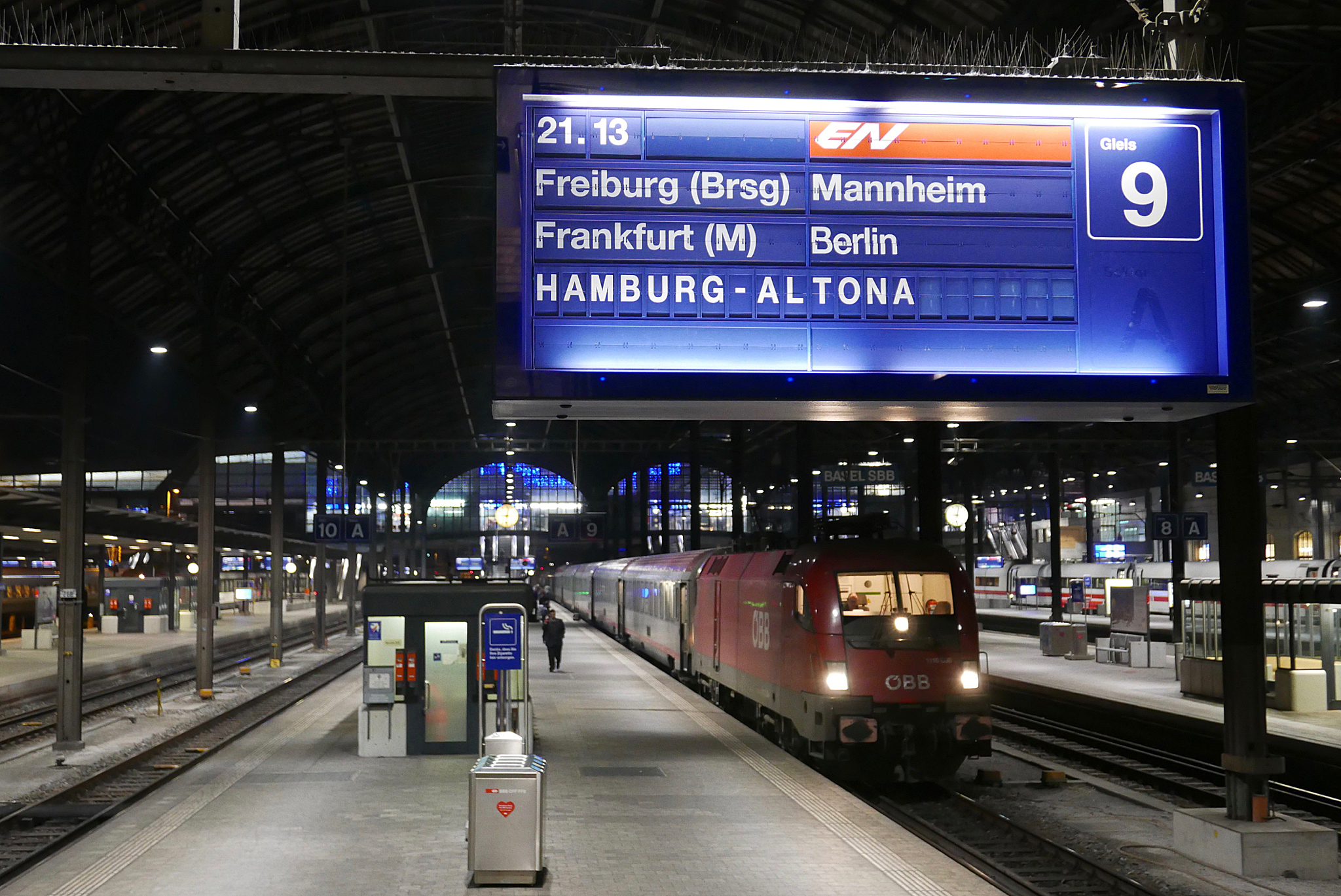 Split-flap display at Basel SBB railway station announcing the EuroNight 470 "EN Night Jet" from Zürich HB to Hamburg-Altona.